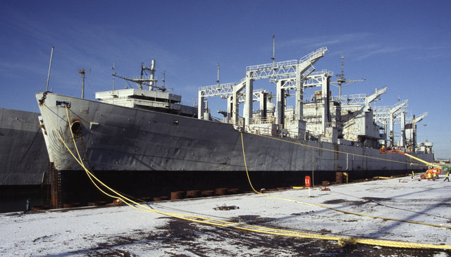 Ghost Fleet, Able UK, Hartlepool. Visible are: USS Caloosahatchee (AO-98), USS Canisteo (AO-99), the bridge of USS Canopus (AS-34), and just a mast of USS Compass Island (AG-153).